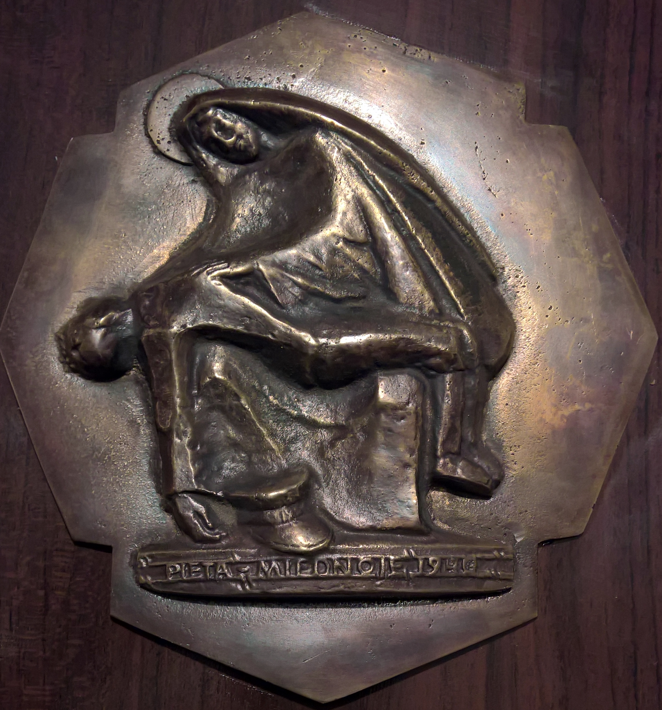 Honorowy Medalion Pamięci Pieta Miednoje 1940